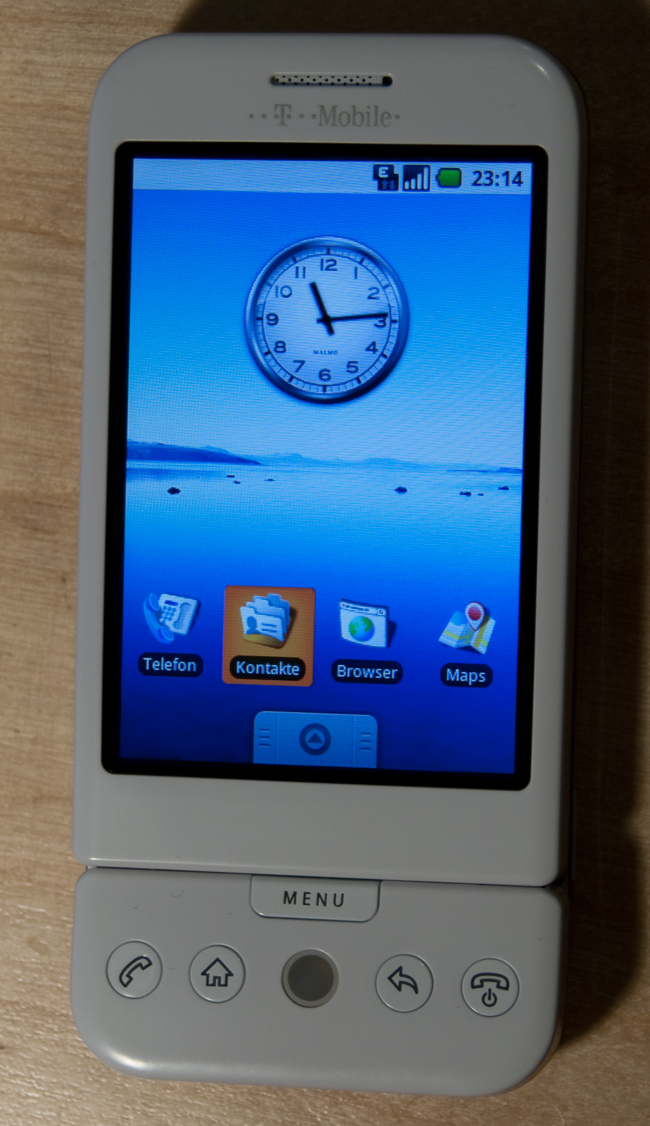 HTC Dream (white) front view)